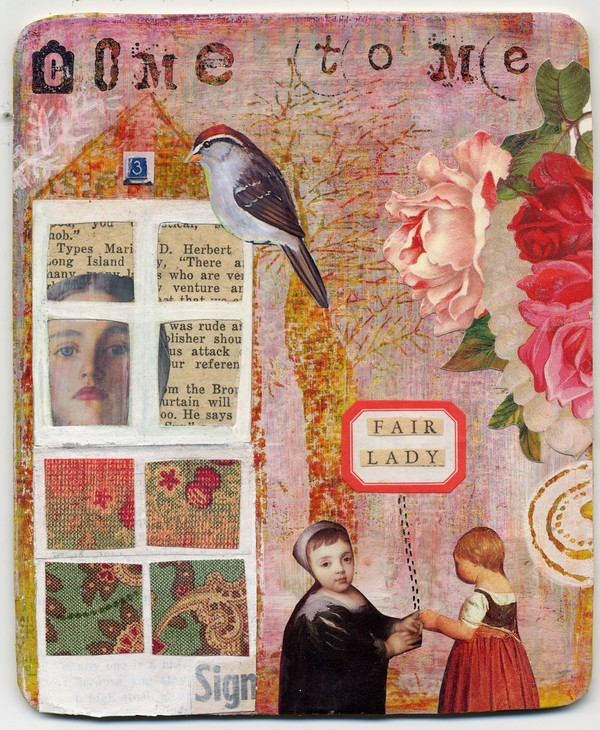 Available at my etsy shop at